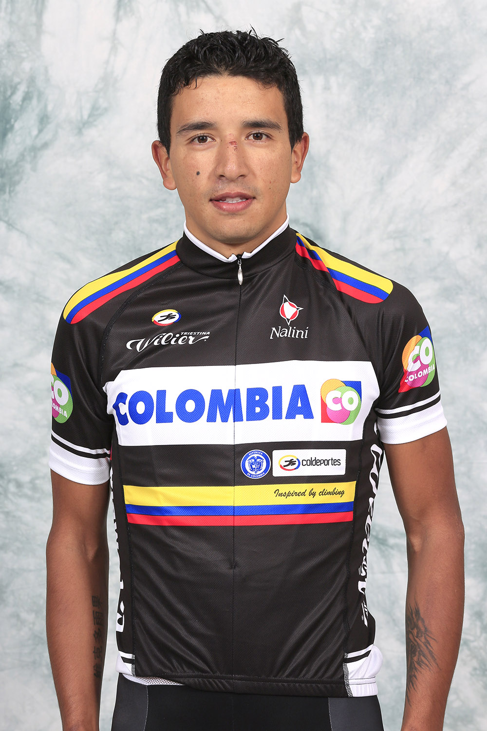 Robinson Chalapud, Colombian cyclist member of the team Colombia in 2013